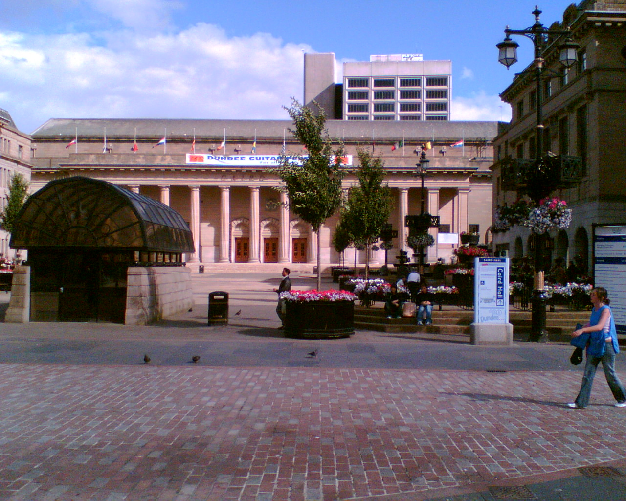 This photo shows the pedestrianised Square in Dundee city centre. The buildings to the left and right are occupied by City Council officials. At the rear of the square is the Caird Hall, a concert and exhibition venue, and host to the Dundee Guitar Festival at the time I took the photo. (I took the photo in July 2005 - the flags on the Caird Hall are at half-mast in remembrance of the bombings which occurred in London on the 7th of that month). Adambisset 20:18, 20 July 2005 (UTC)